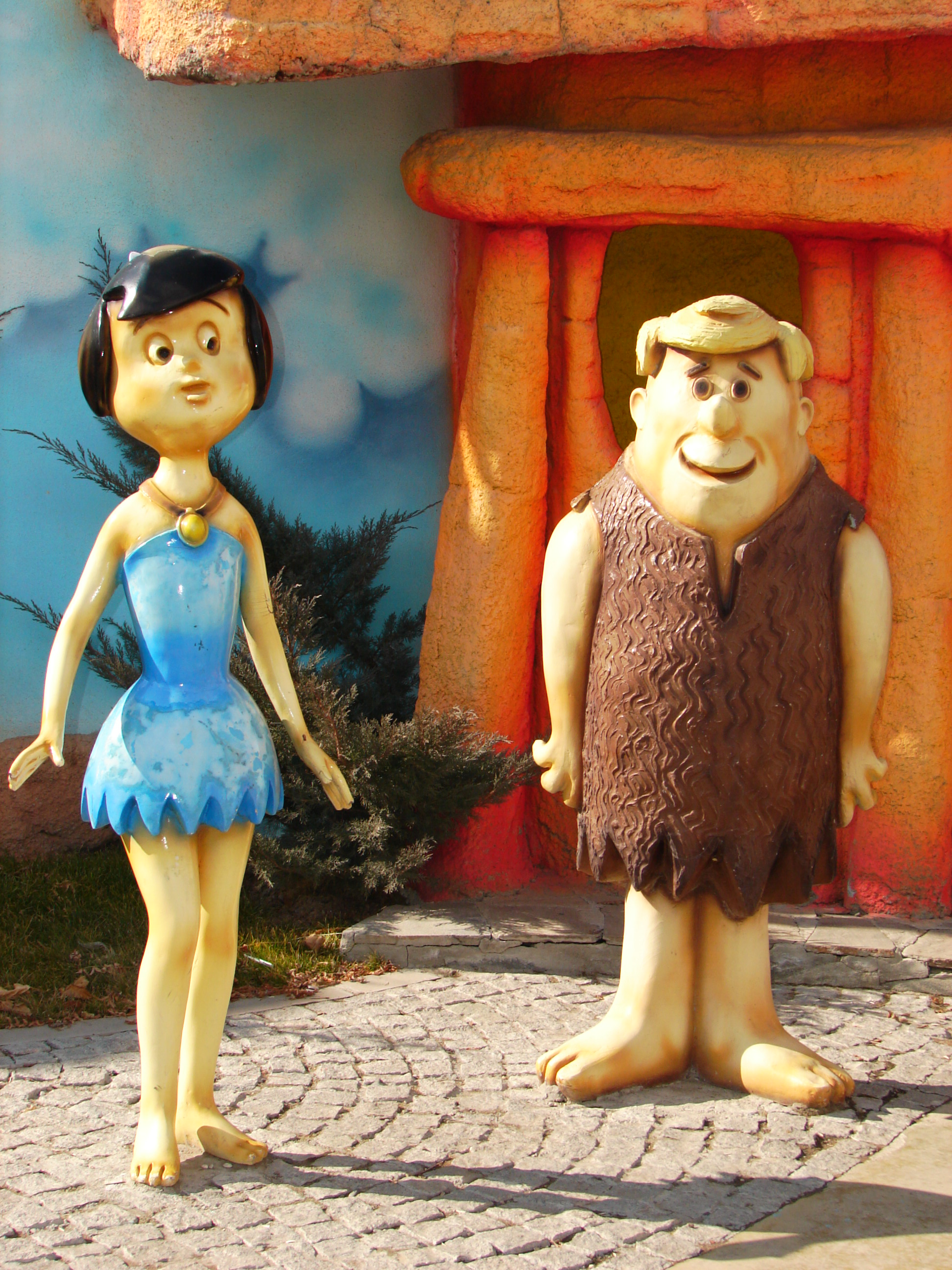 Betty and Barney Rubble figurines after the The Flintstones series at the Ankara Public Amusement Park